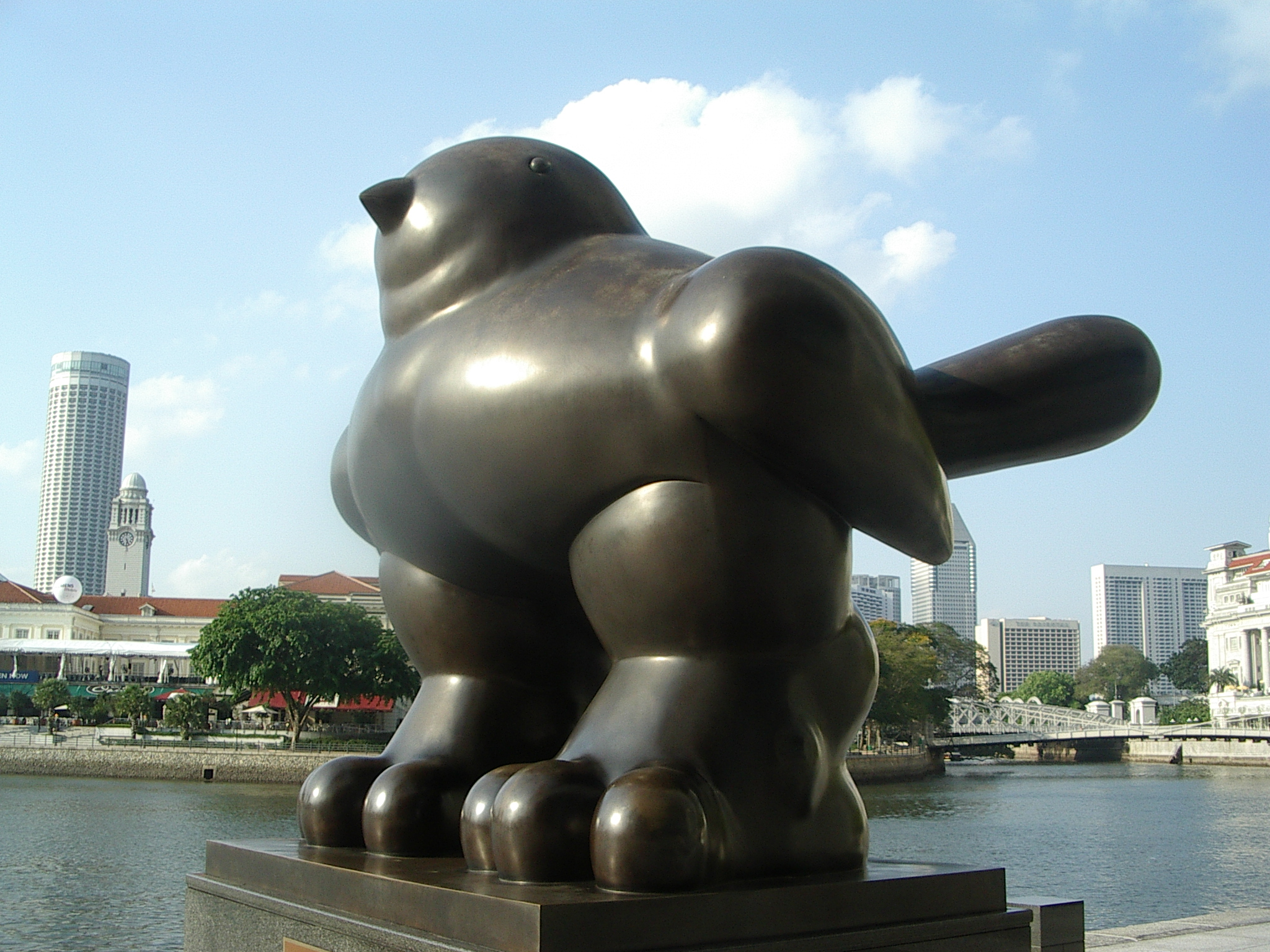 Bird by Fernando Botero, in front of UOB Plaza, Singapore.